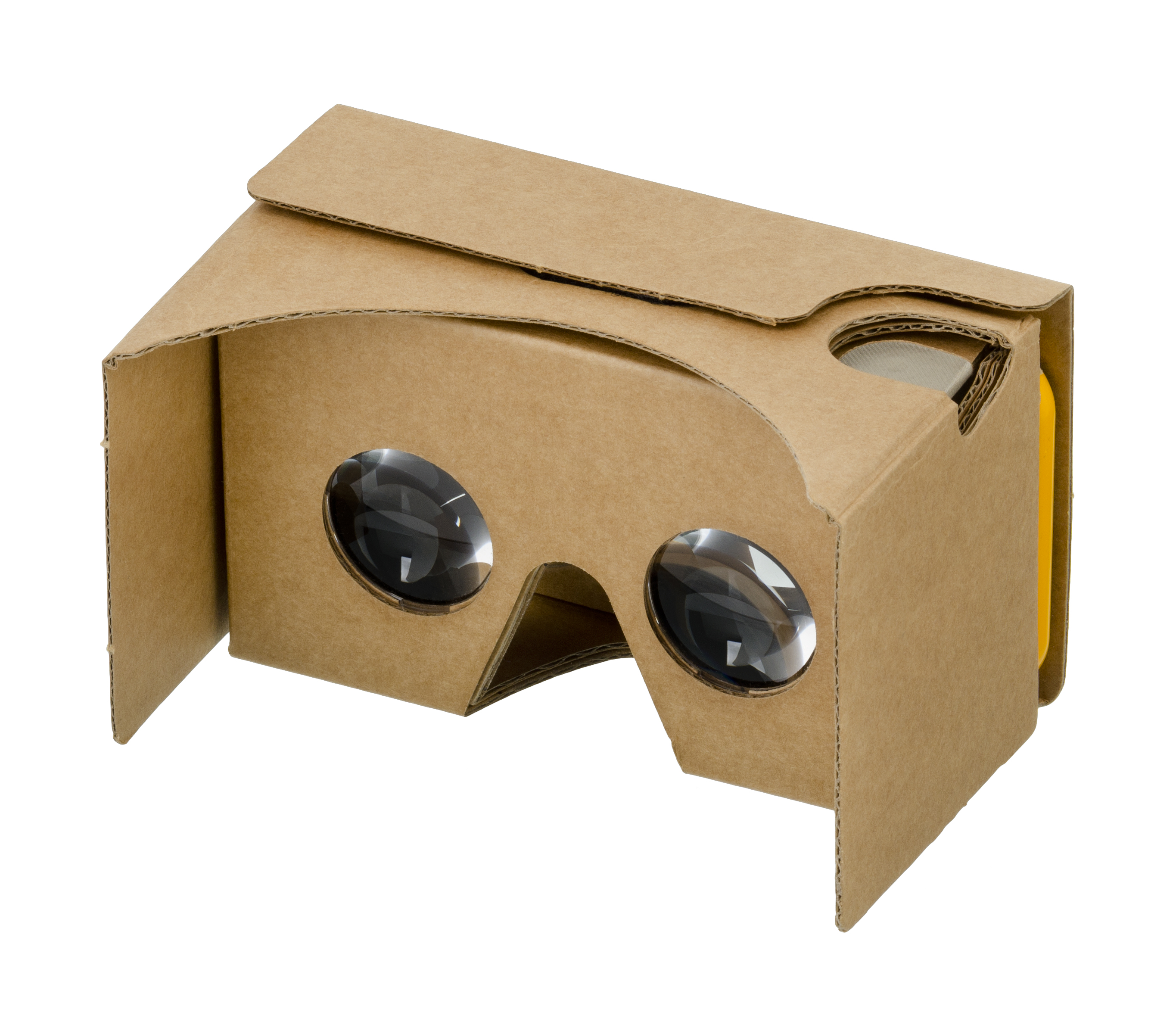 A Google Cardboard VR headset, shown assembled and with a phone (iPhone 6s) in the visor slot. Made as a cheap, open standard by Google to encourage use and development of Virtual Reality, Google Cardboard is an inexpensive container and plastic lenses designed to turn a phone or small tablet into a VR headset. This particular model came free with the New York Times as part of a promotion on November 8th, 2015.